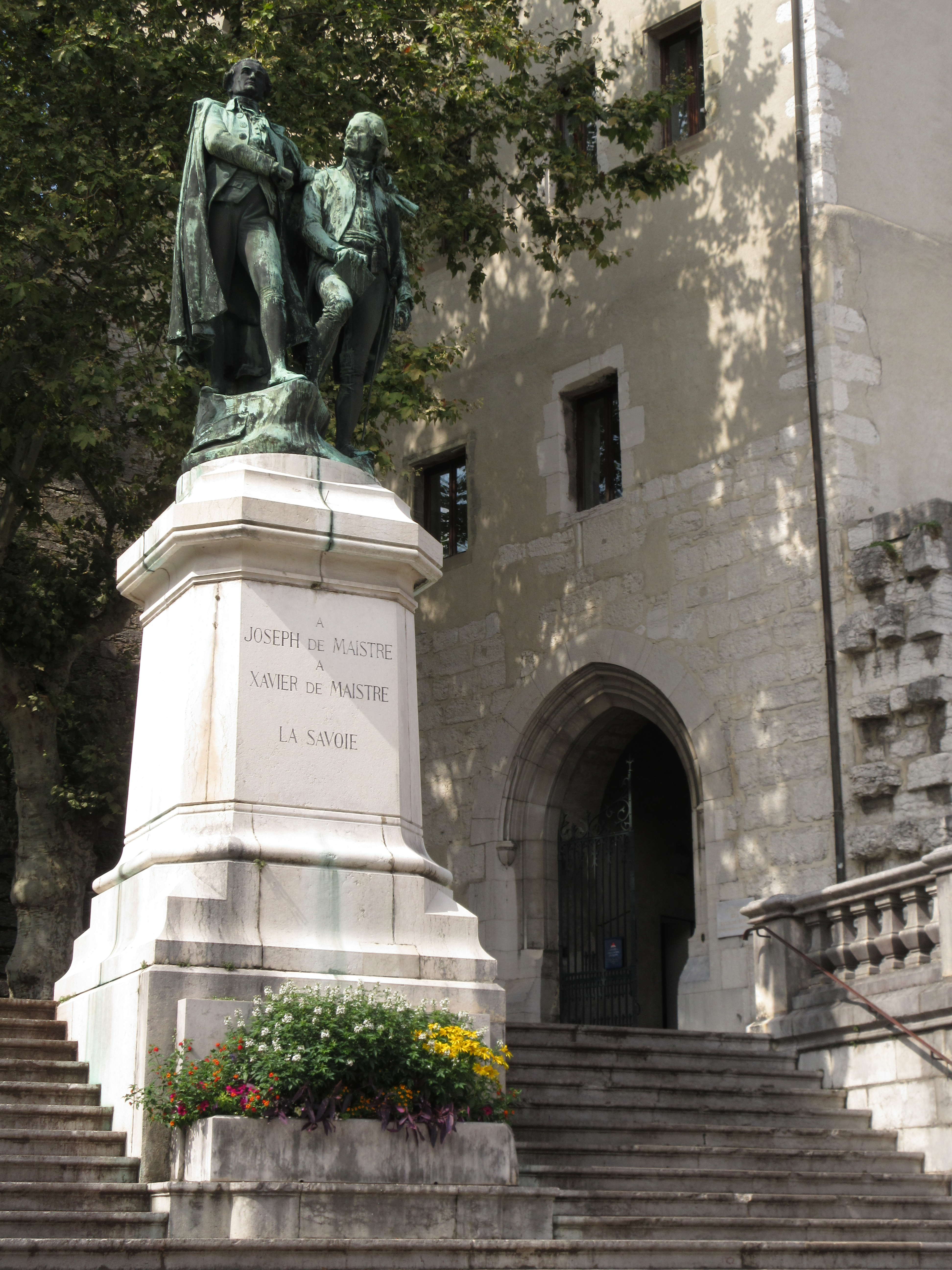 Statue of Joseph and Xavier de Maistre brothers at Chambery